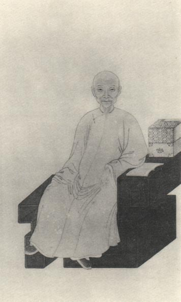 Huang Ren, scholar of the Qing Dynasty.